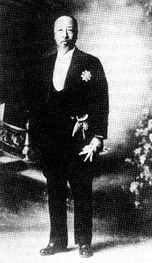 Ling Fupeng (1854－1930)